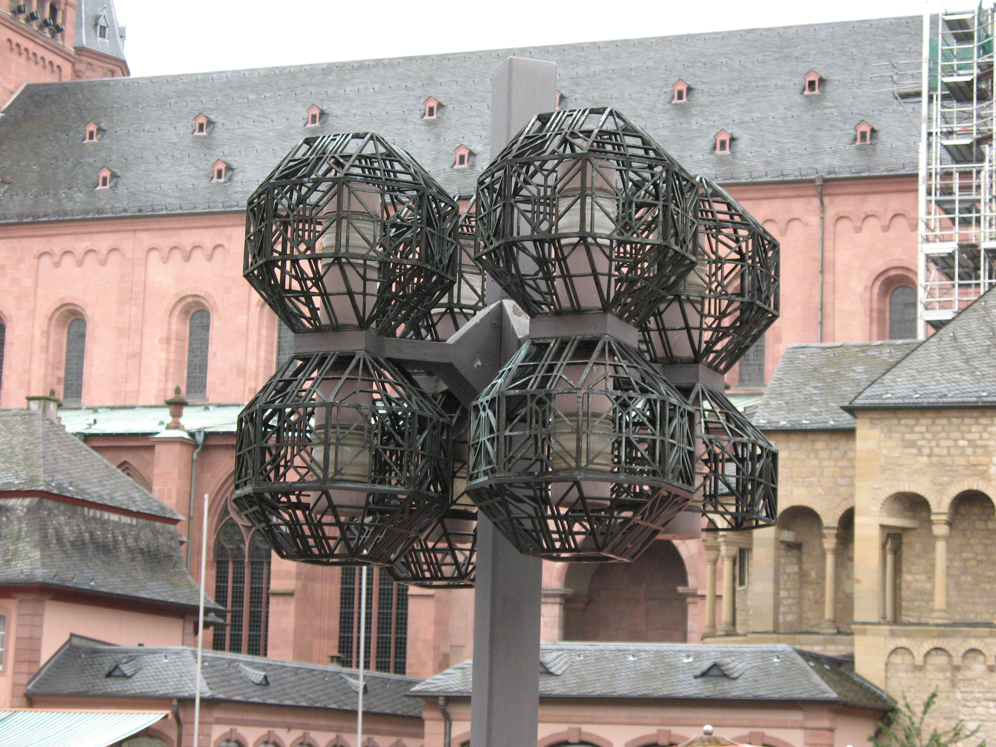 Street lamps in front of the Dom in Mainz, Germany, shaped like a rhombicuboctahedron